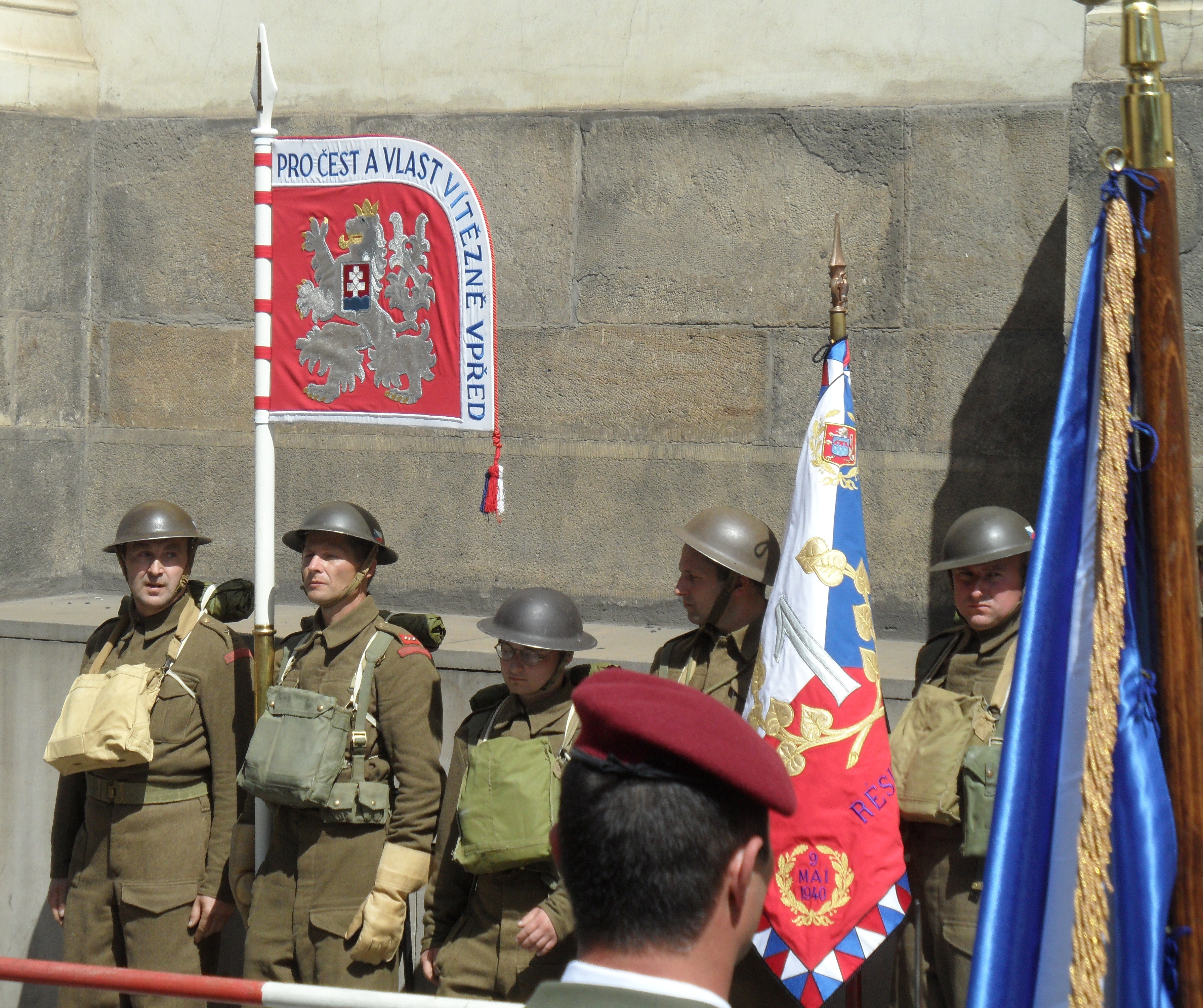 Prague, Resslova street: Memorial Act, 75th Anniversary of Operation Anthropoid. Prague, the Czech Republic.